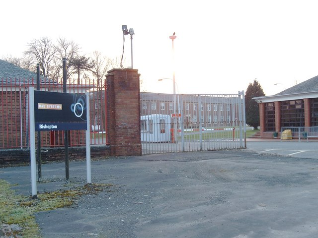 Gate at the Royal Ordnance Factory Site in Bishopton